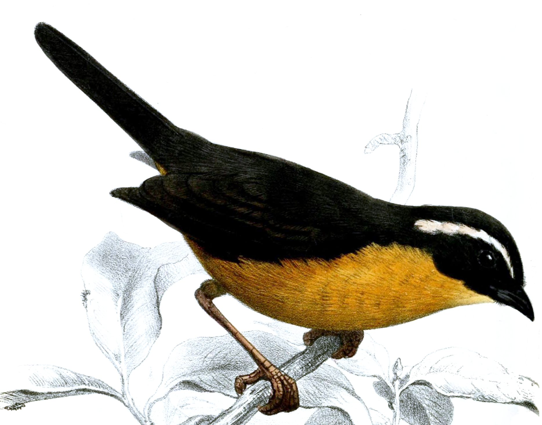 Slaty-backed Hemispingus, adult male